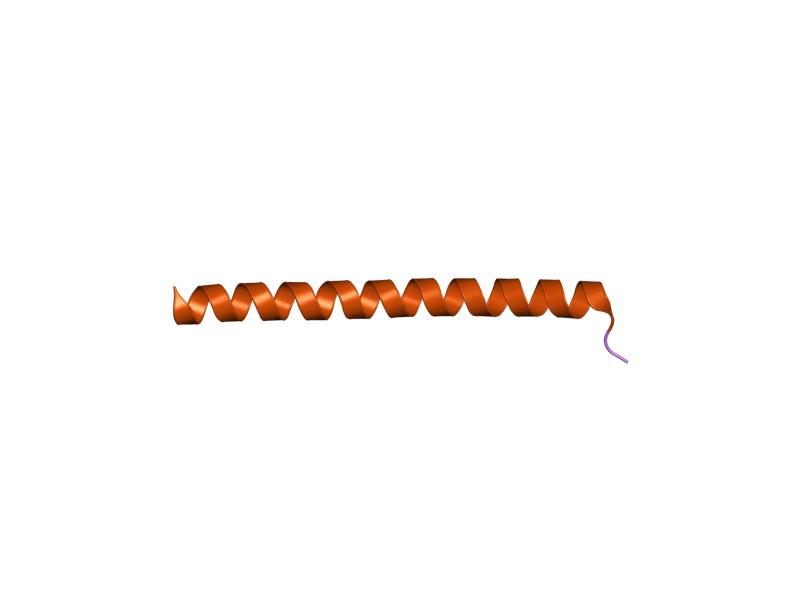 Cartoon representation of the molecular structure of protein registered with 1usd code.